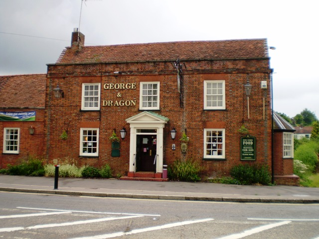 The George and Dragon at Graveley At one time Graveley was on the Great North Road, so it is not surprising to find somewhere to stop and eat. But you have a choice. Not only do you find the George and Dragon but the Waggon and Horses is right next door and there is a Hungry Horse just up the road.